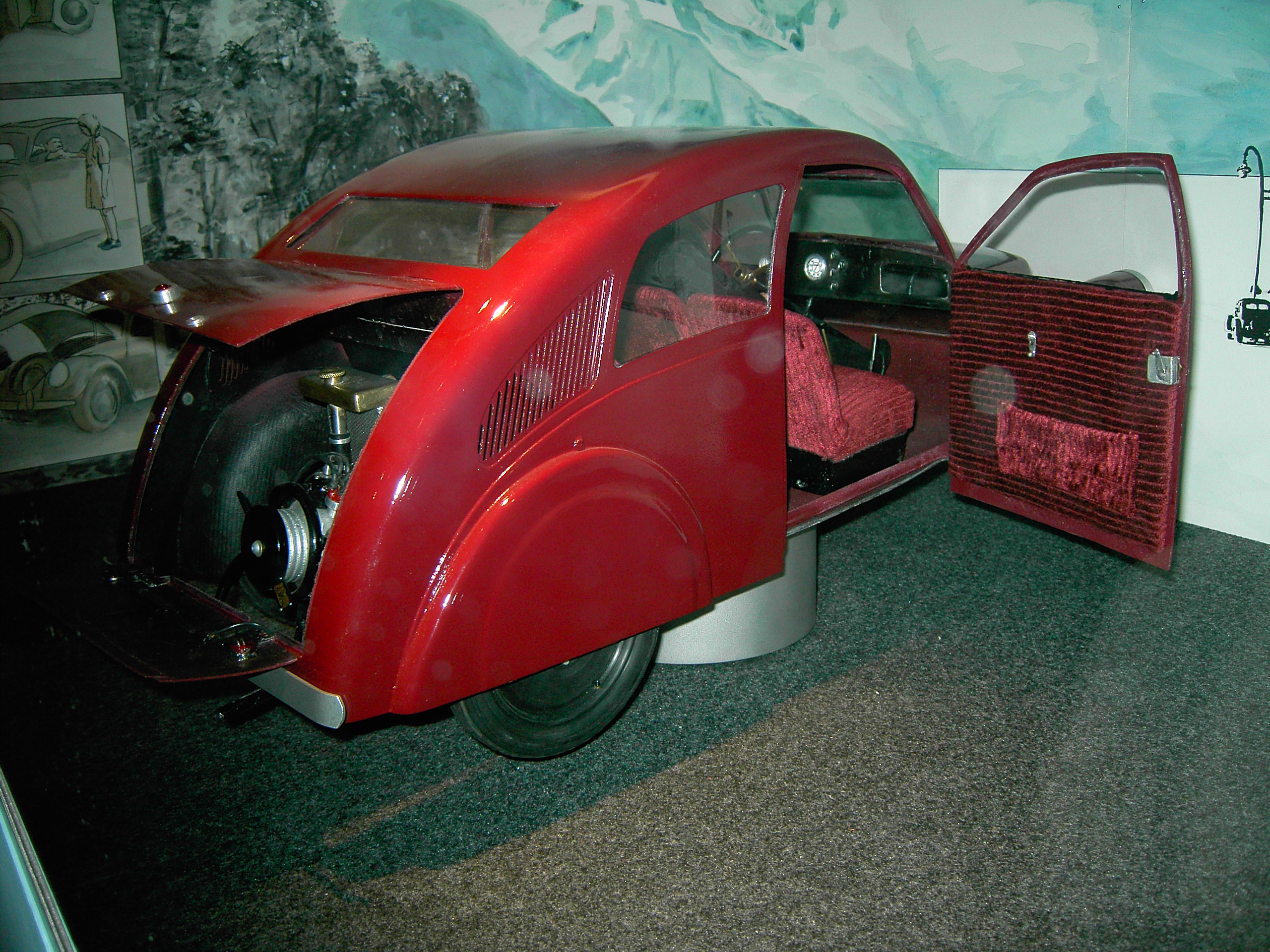 Zündapp-"Volkswagen", Porsche Typ 12 (1932), reconstruction at the Museum for Industrial Culture, Nuremberg, Germany